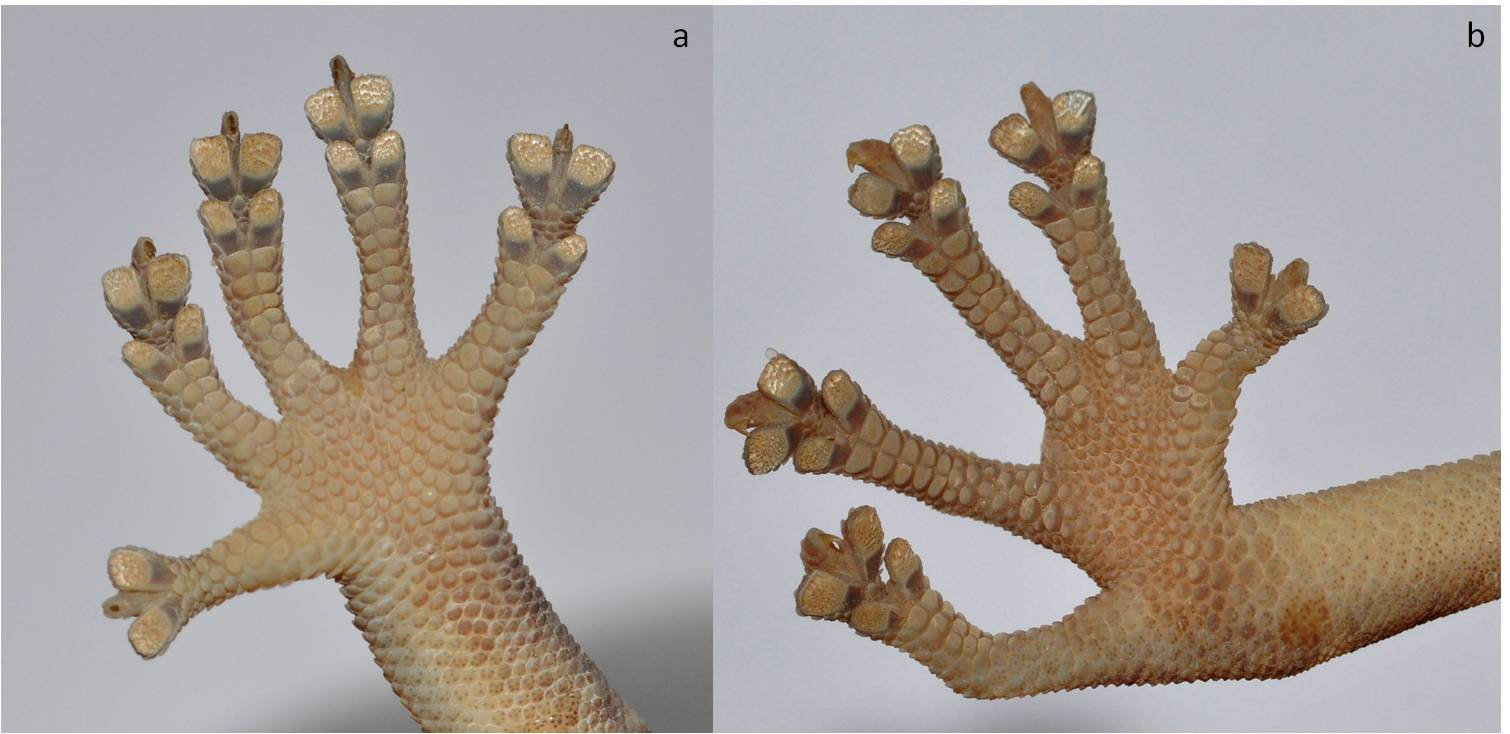 These were specimens in the collection of North Orissa University, Baripada